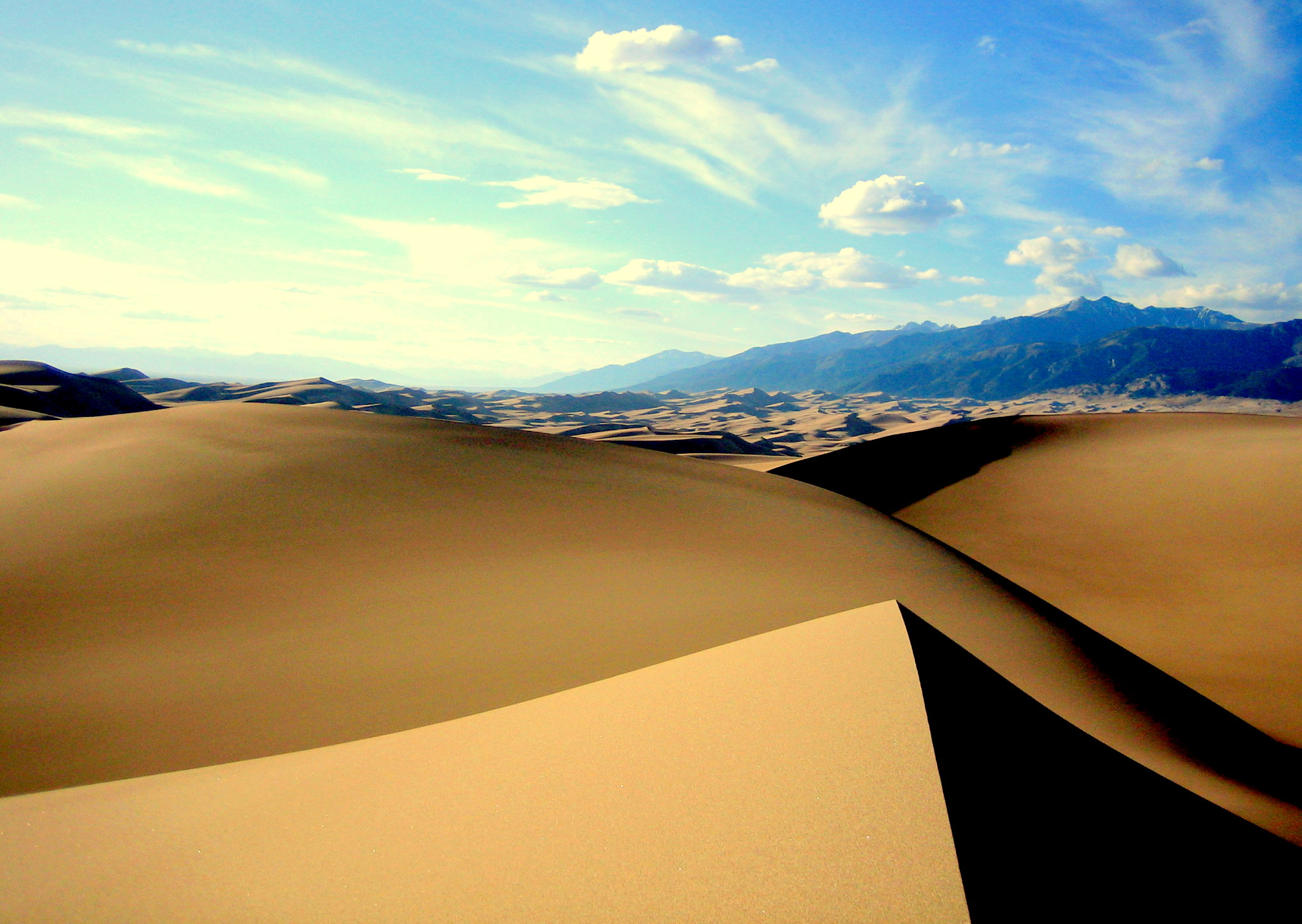 View from within the dunes, Great Sand Dunes National Park, Colorado.